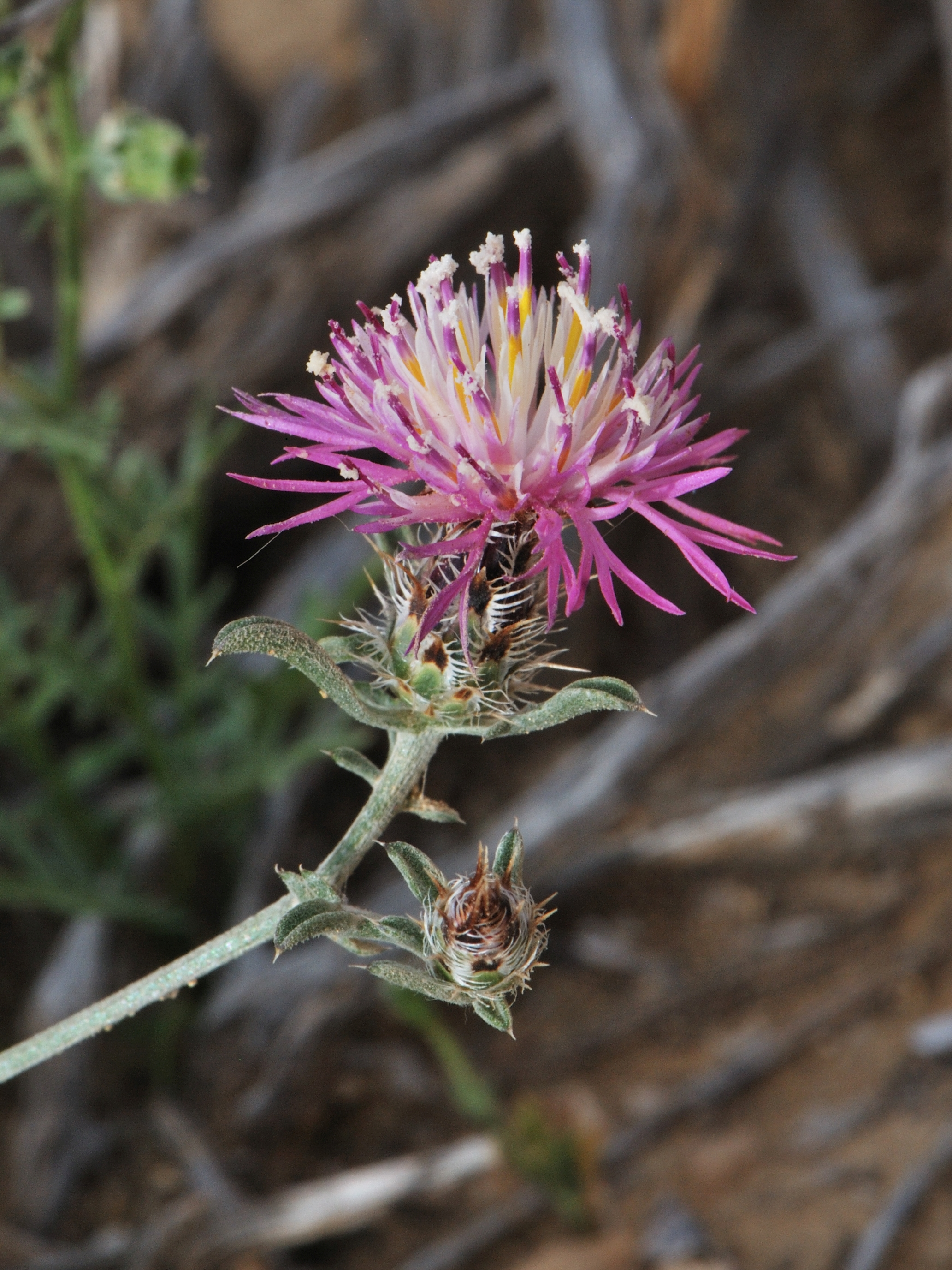 Centaurea ammocyanus Boiss., April 16 2010, Negev Mountains, Israel.